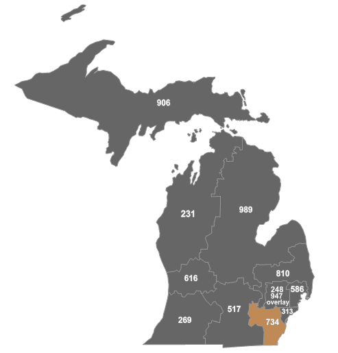 Area code map of Michigan highlighting the region covered by area code 734.